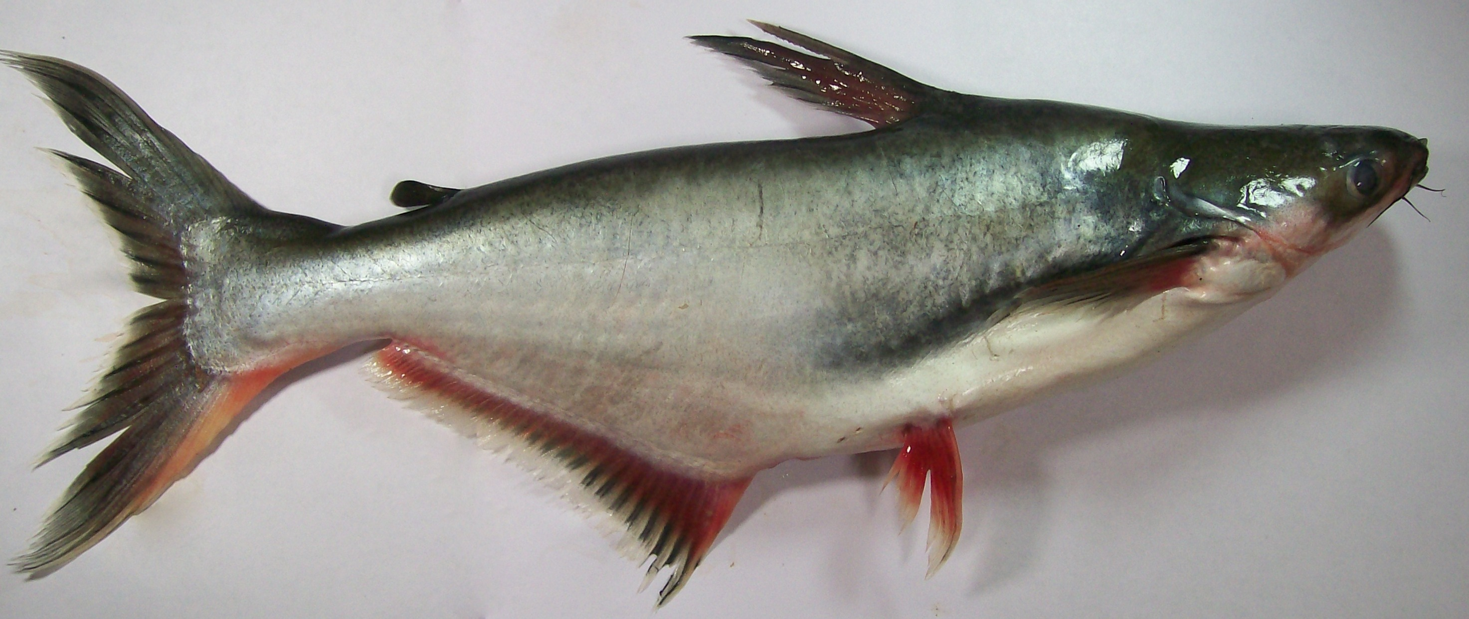 Individual approx 500g, 40cm long; Anal rays 27; Pelvic rays 8; Dorsal rays 6+ spine; Pectoral rays ~8; Serrated spine ahead of both dorsal and pectoral fin; 2 pairs of barbels (1 chin and 1 maxillary); Vomeral teeth in narrow cresent shaped ridge, palatal teeth in two halves of a very narrow cresent. Swim bladder extended past anal fin. no lobes visible(?). ID based on barbel length, head profile, number of anal rays, dentition and single lobed swim bladder using (Roberts, Tyson R.; Chavalit Vidthayanon (1991-01-01). "Systematic Revision of the Asian Catfish Family Pangasiidae, with Biological Observations and Descriptions of Three New Species". Proceedings of the Academy of Natural Sciences of Philadelphia 143: 97–143. ISSN 0097-3157. Retrieved on 2013-01-16.) see File:Pangasianodon_hypophthalmus_head_ventral_view.jpg for ventral view of head. Individual got at a Pune fish market.